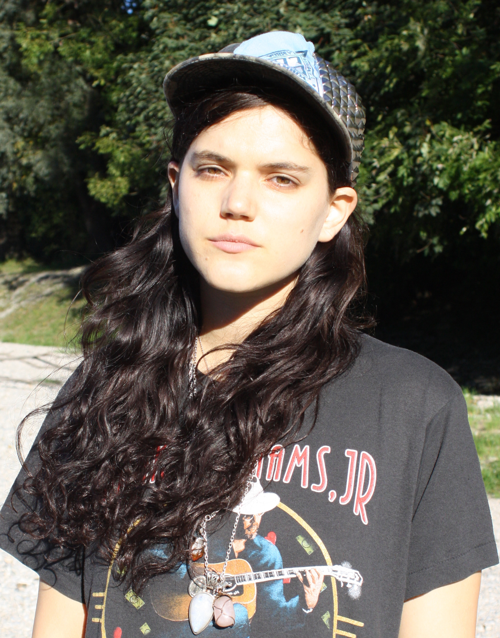 Stéphanie Sokolinski, stage name SoKo, French singer and actress, in Munich, Germany